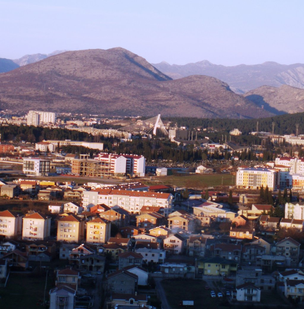 Zabjelo.